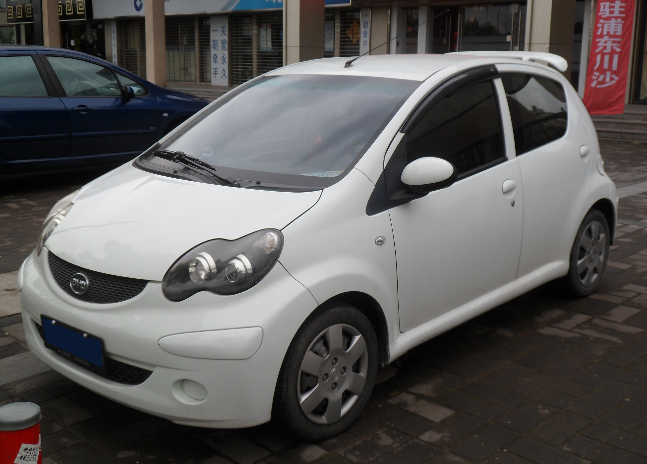 BYD F0 photographed in Shanghai, China.